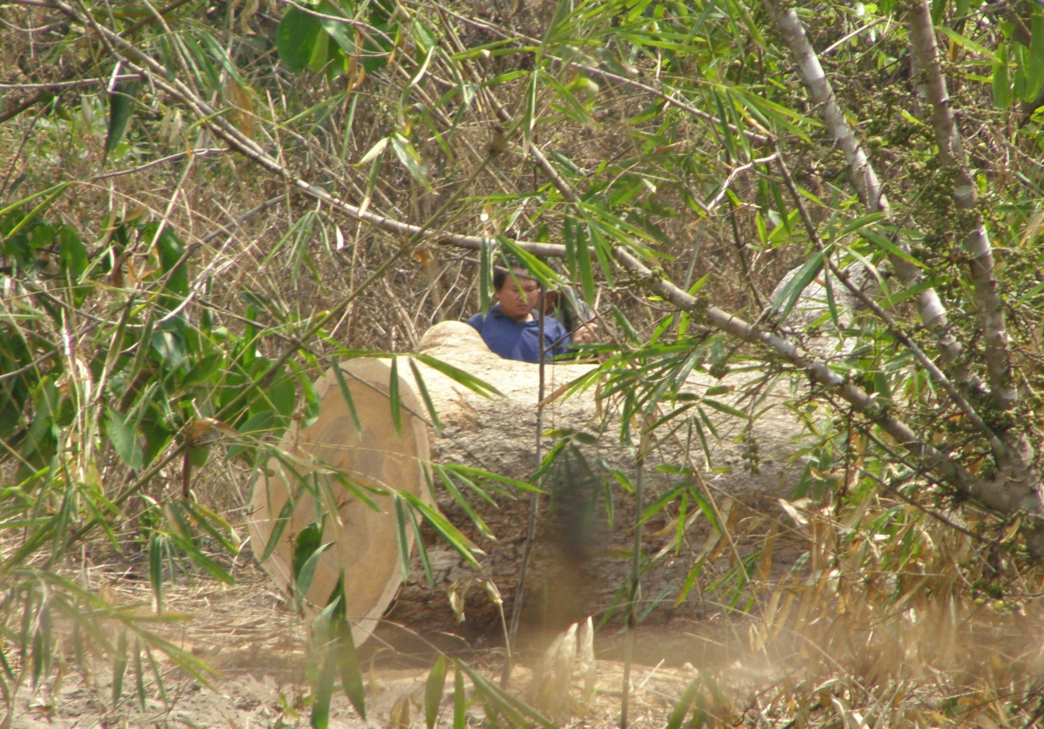 Photograph of illegal logging taking place in Tambon Donpao, Amphur Mae Wang, Changwat Chiang Mai, Thailand. Photo taken in March 20011 from the roadside.